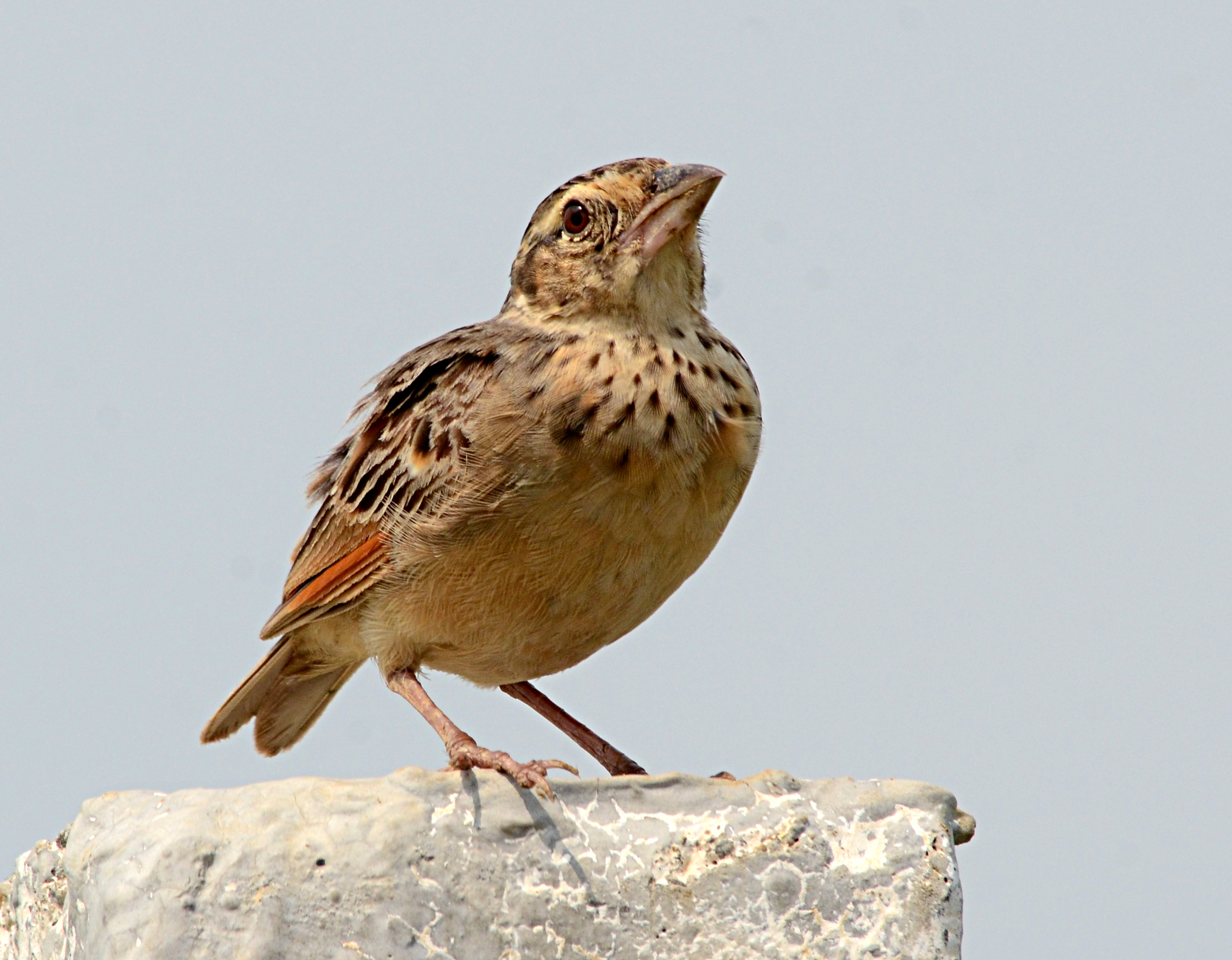 Bengal Bushlark